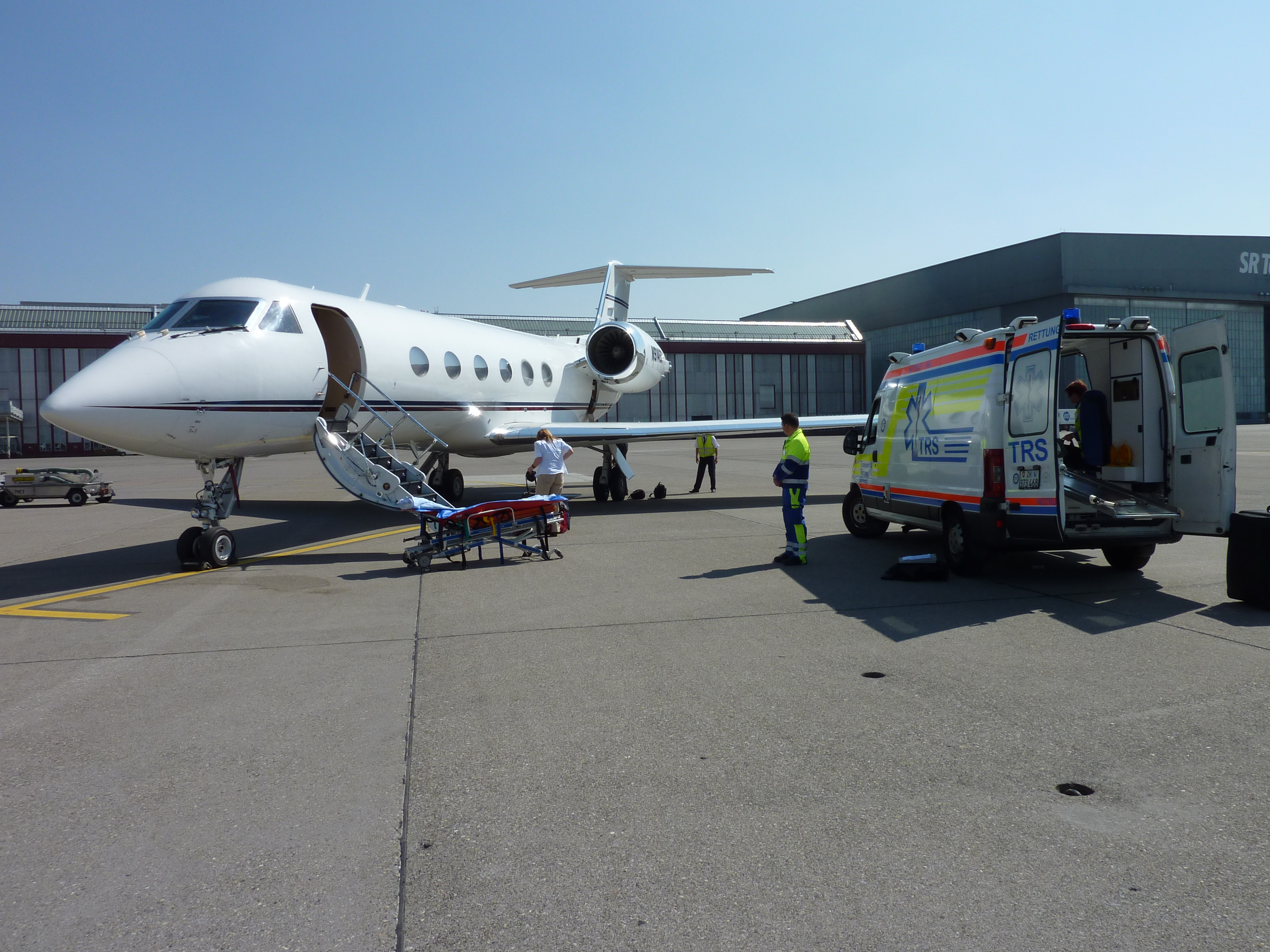 Gulfstream IV used by Mercy Jets for transporting patients. Shown here on the ground in Zurich, Switzerland getting ready to transfer a patient.